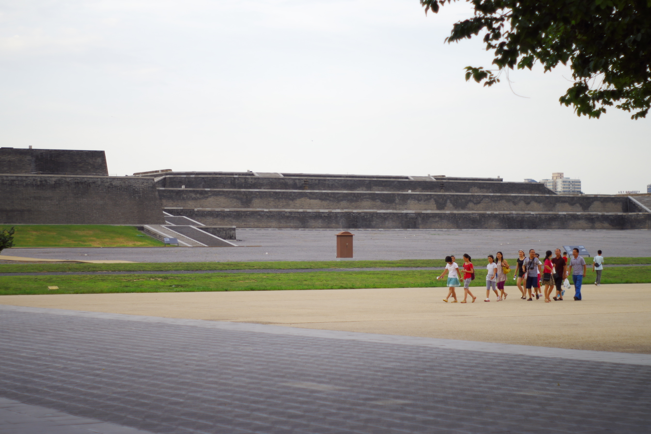 Site of Hanyuan Hall of Daming Palace, Tang Dynasty. Xi'an, China